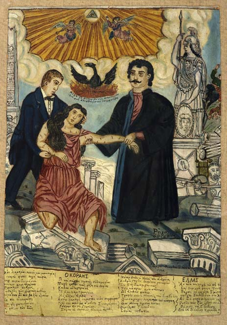 Rigas Velestinlis and Adamantios Korais help Greece stand on its feet, 19th century. Macedonian Museum of Contemporary Art.